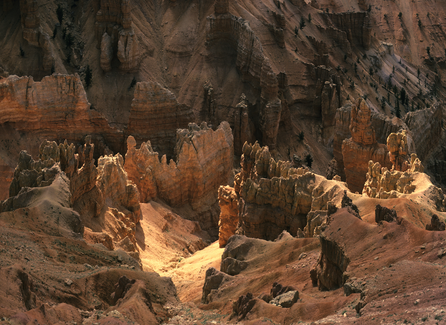 Entrance to a ravine with hoodoos in the Cedar Breaks National Monument.